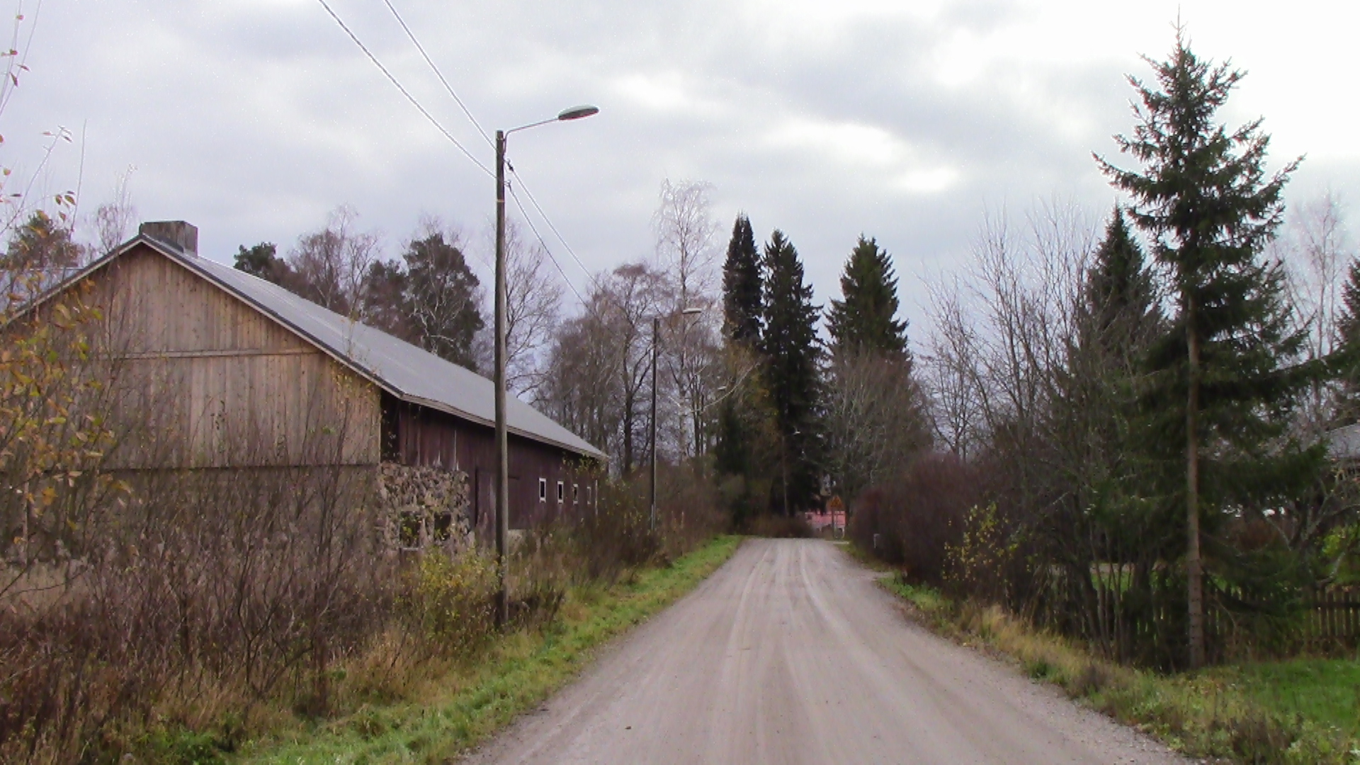 Idyllic Männistöntie road at Vatiala suburb in Kangasala, Finland.